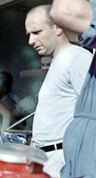 Juan Manuel Fangio at Buenos Aires in 1957.